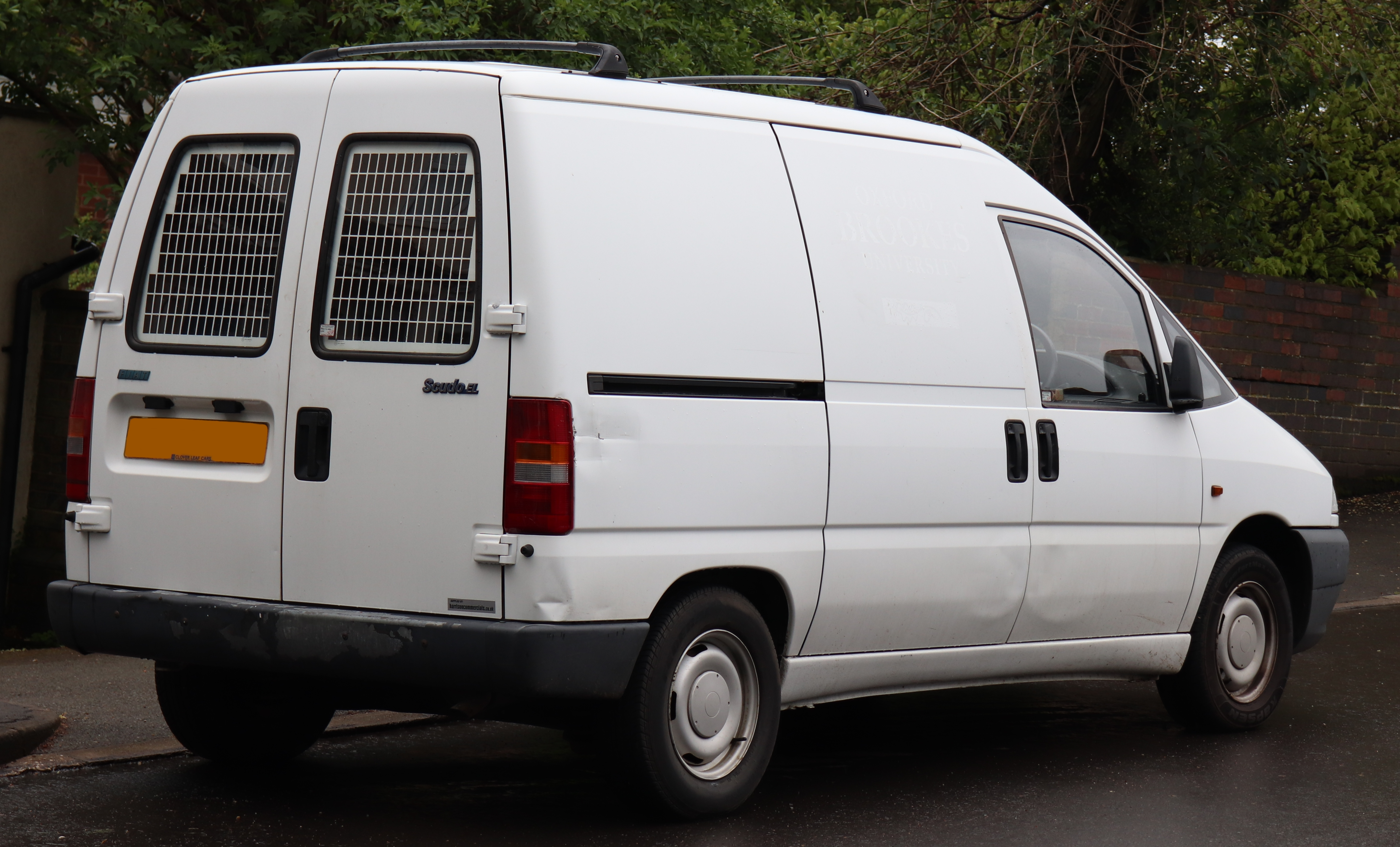 1998 Fiat Scudo EL Diesel 1.9 Rear Taken in Leamington Spa